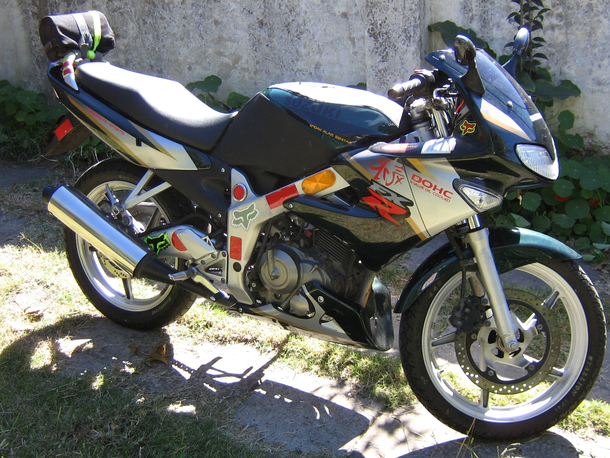 Rich wanger